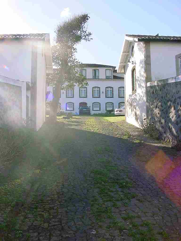 Solar Merens de Távora, fachada e pátio, São Mateus da Calheta, Angra do Heroísmo, ilha Terceira